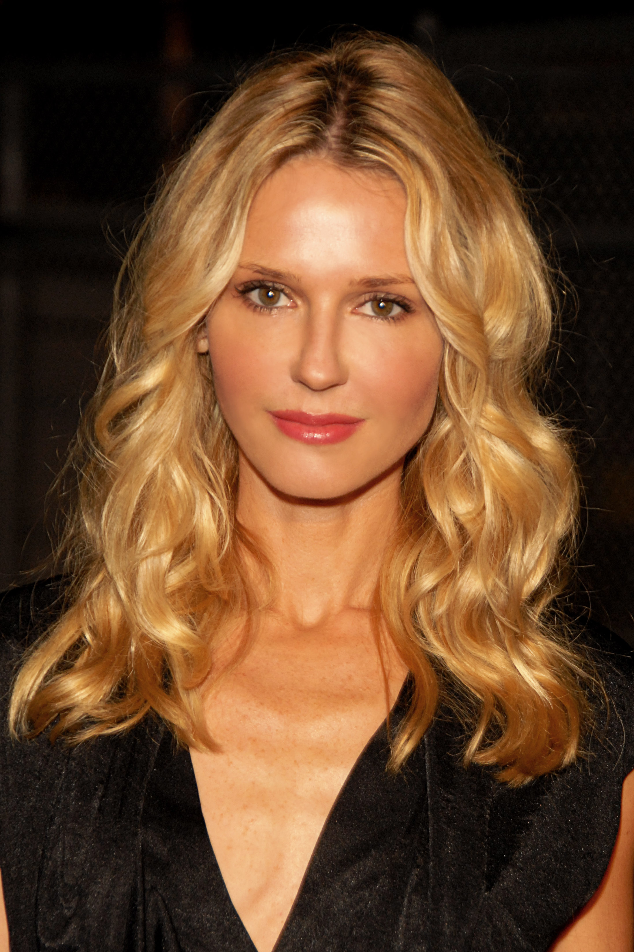 Vanessa Branch attending Maxim Magazine's 10th Annual Hot 100 Celebration, Santa Monica, CA on May 13, 2009 - Photo by Glenn Francis of